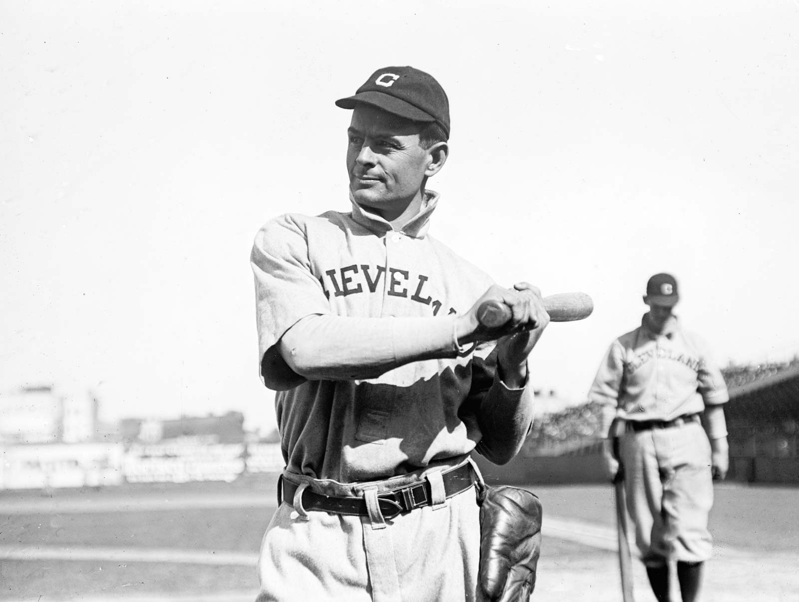 Elmer Flick (1876 - 1971), an American baseball player